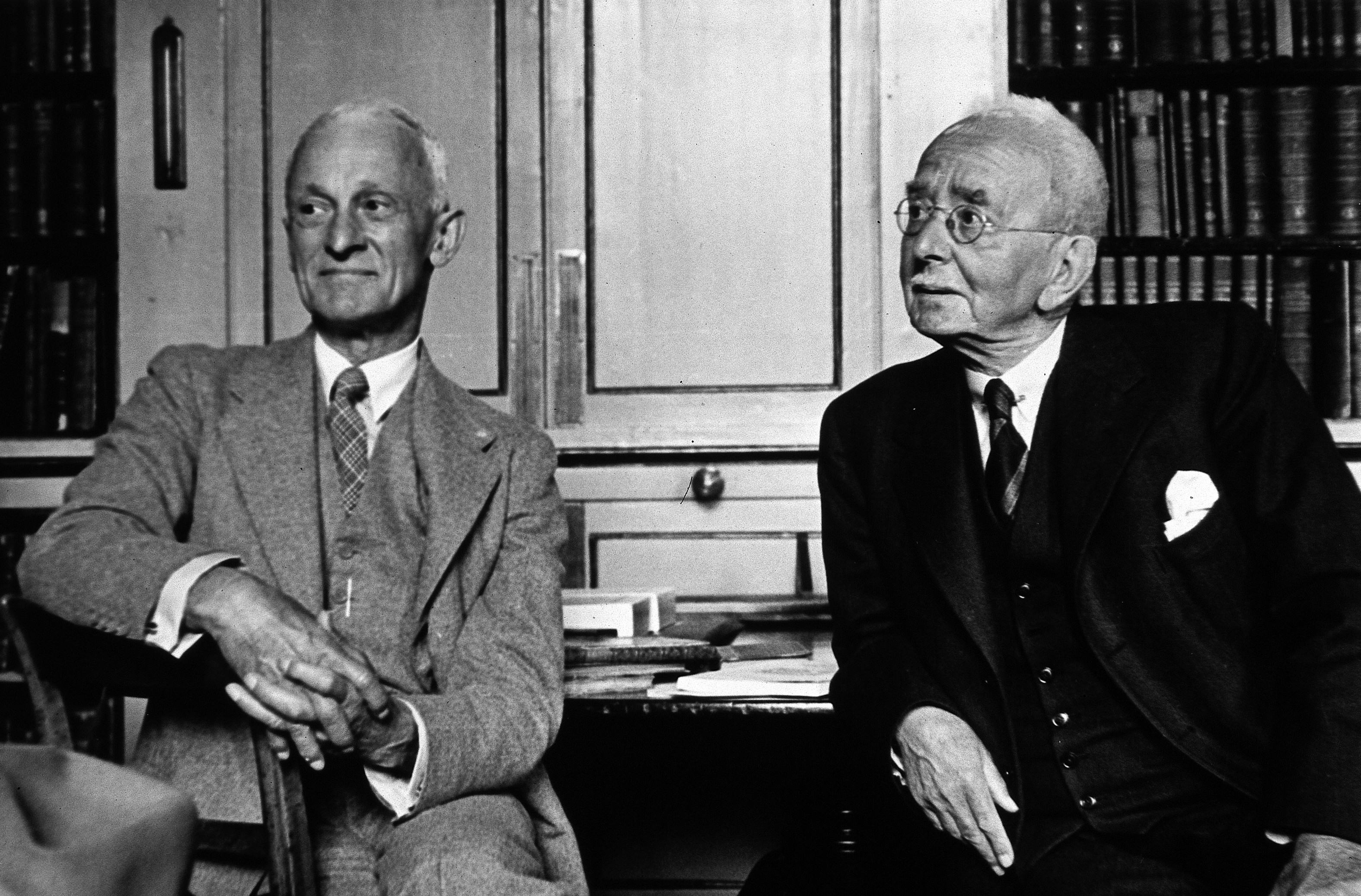 Harvey Williams Cushing and Sir Charles Scott Sherrington